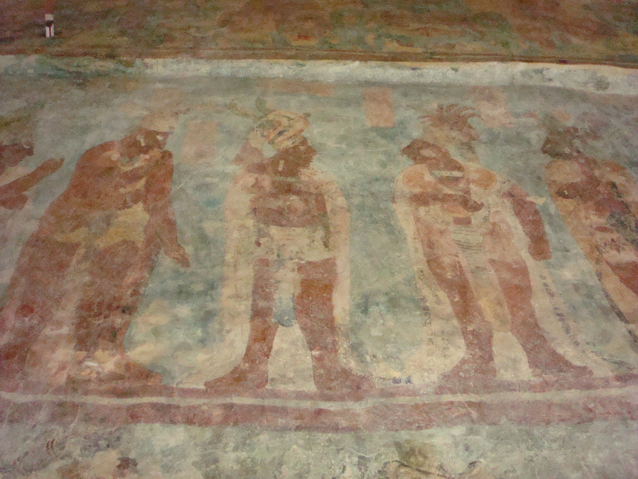 Murals at Bonampak ancient Maya site, Chiapas, Mexico.